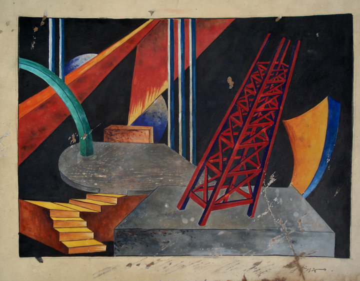 Irakli Gamrekeli (1894–1943). Sketch for Mayakovsky's Mystery-Bouffe at the Rustaveli Theatre, 1924.